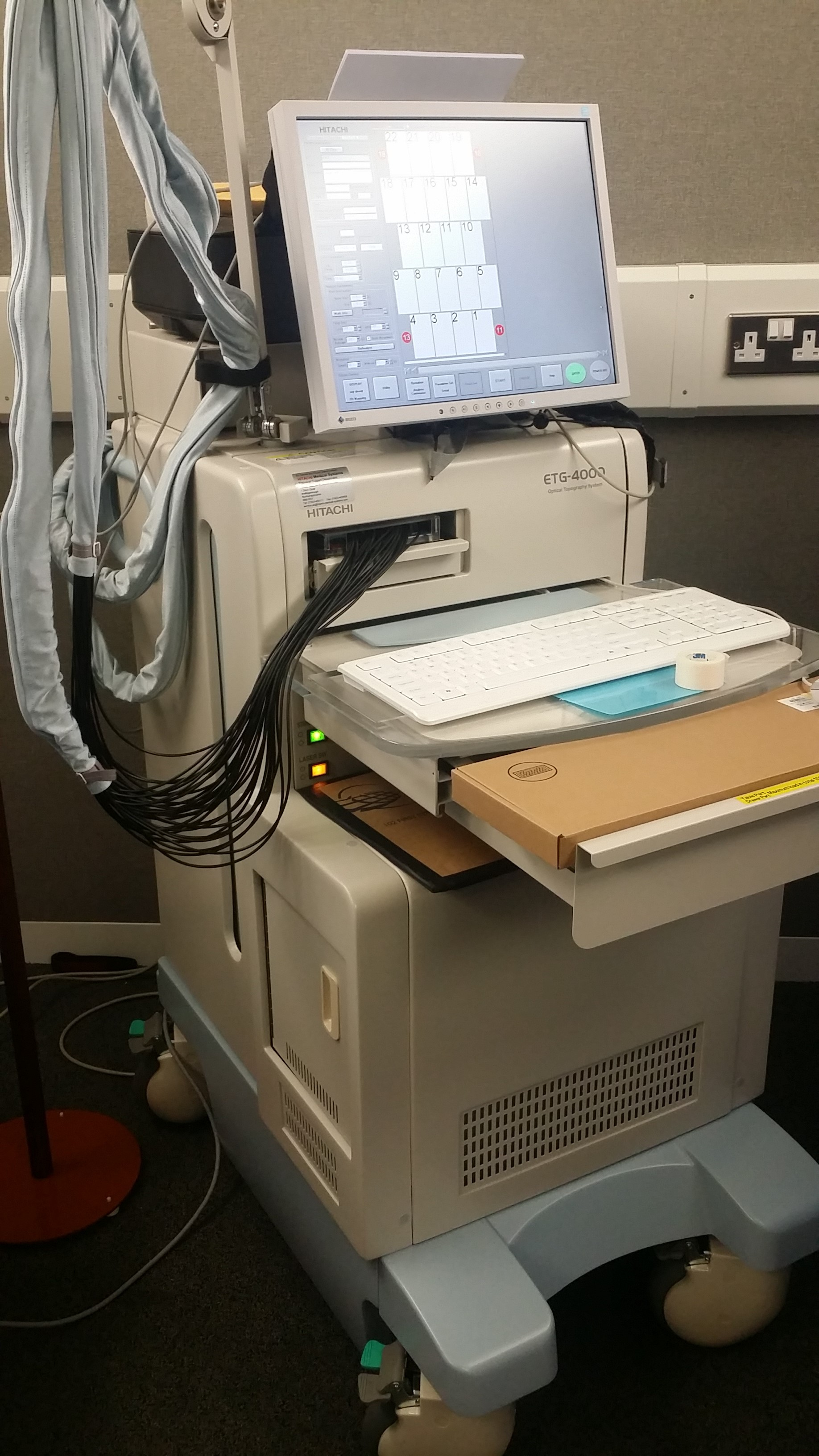 fNIRS (Hitachi ETG-4000)